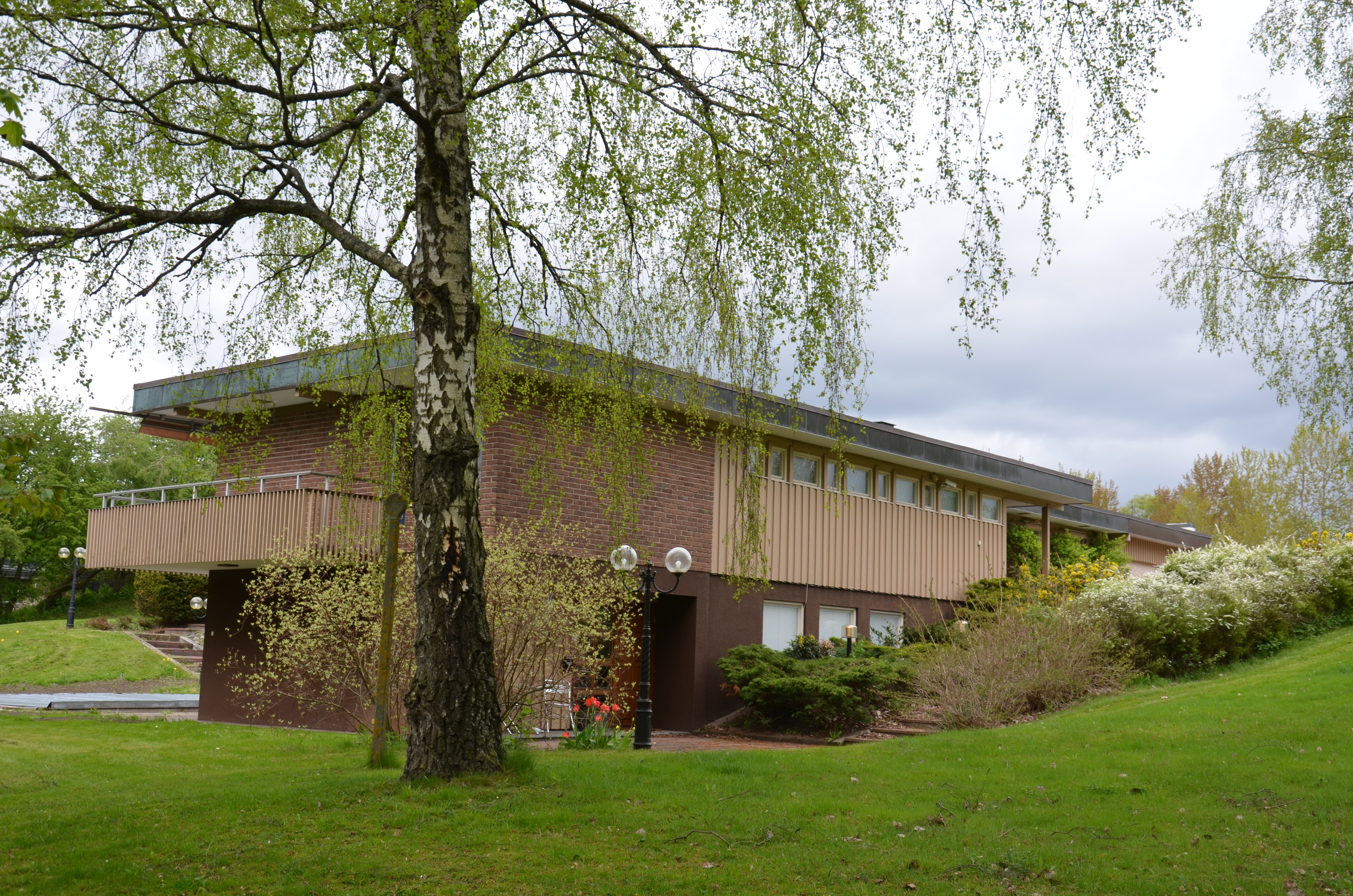 NU64 house, Nordengatan 9 in Norrköping, drafted by Danish-Swedish architect Hans Gade